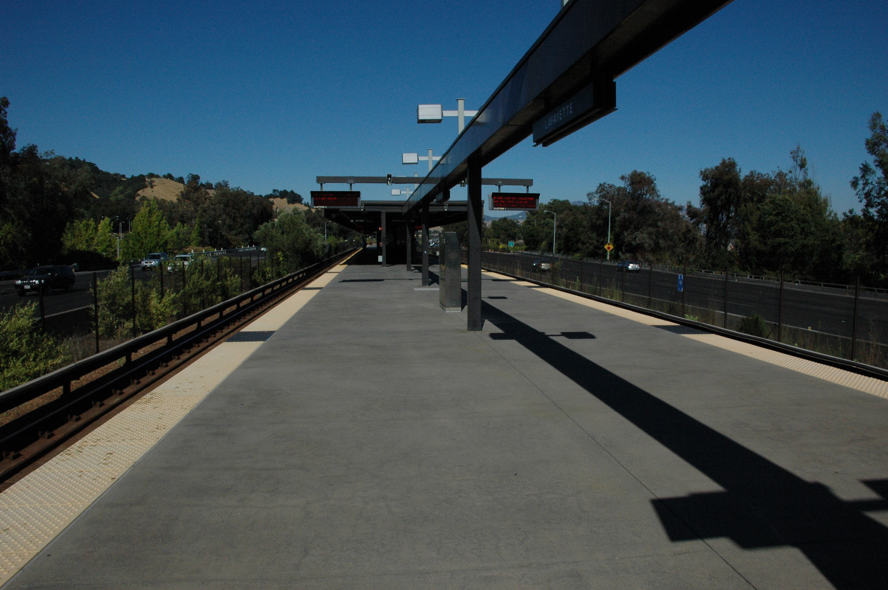 The BART system